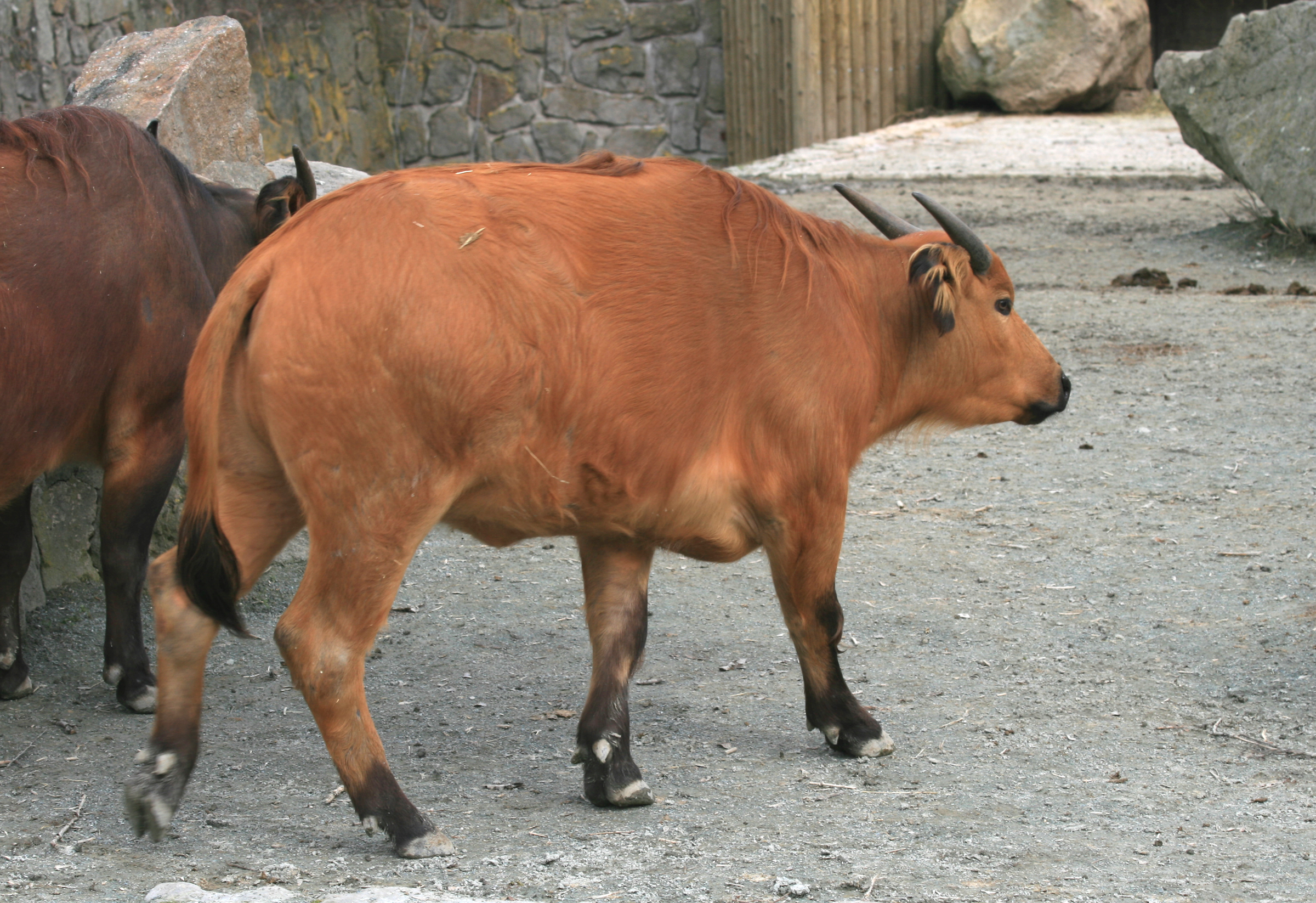 Young African Forest Buffalo, Syncerus caffer nanus in ZOO Dvůr Králové, Czech Republic